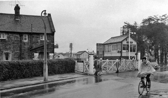 Bare Lane Station. Lancaster (Castle) - Morecambe (Euston Road) line - to Morecambe (former Promenade) since 3/1/66. The station (on left, direction Lancaster) is still open. It was obviously raining hard that day